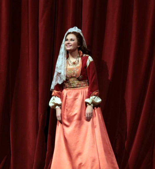 Elena Maximova, Wiener Staatsoper